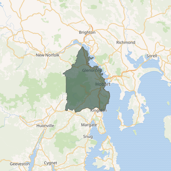 Electoral boundaries from Administrative Boundaries [May 2016] ©PSMA Australia Limited licensed by the Commonwealth of Australia under Creative Commons Attribution 4.0 International licence (CC BY 4.0): Background map layer and image thumbnail generated by Wikimedia maps; Creative Commons Attribution-ShareAlike 4.0 International licence (CC BY-SA 4.0).